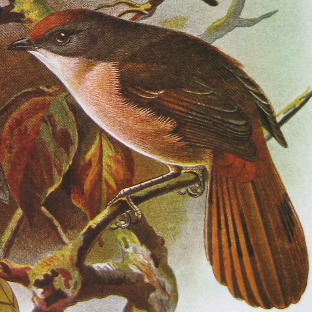 Mohoua novaeseelandiae, Brown Creeper.